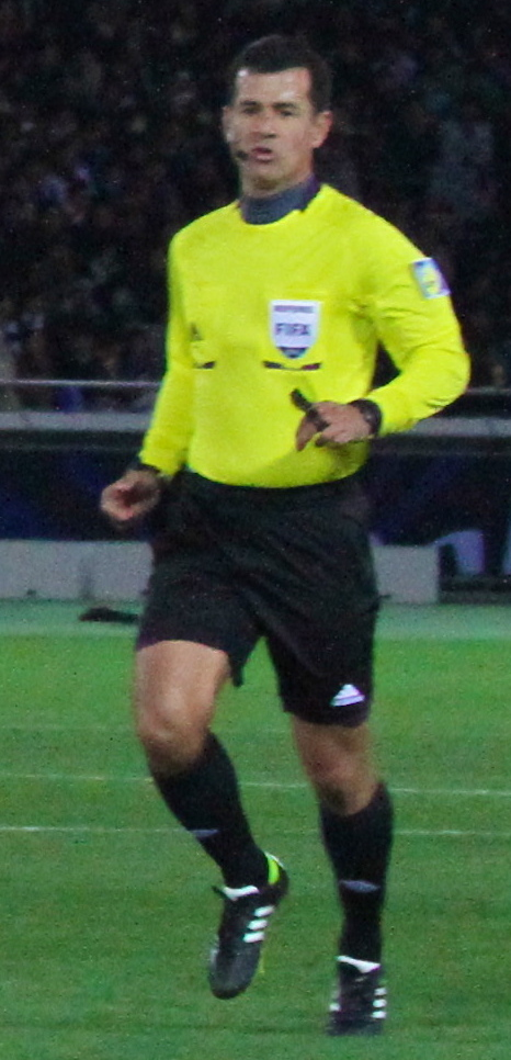 César Azpilicueta at the 2012 FIFA Club World Cup semifinal against CF Monterrey.